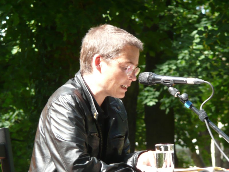 German poet and writer Sabine Küchler, reading at the Erlanger Poetenfest 2010